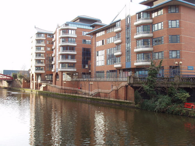 Ralli Quays, Salford. Ralli Quays by the River Irwell includes offices of HM Revenue and Customs. Until 2010, the Revenue and Customs Prosecutions Office. View across the river from Manchester.